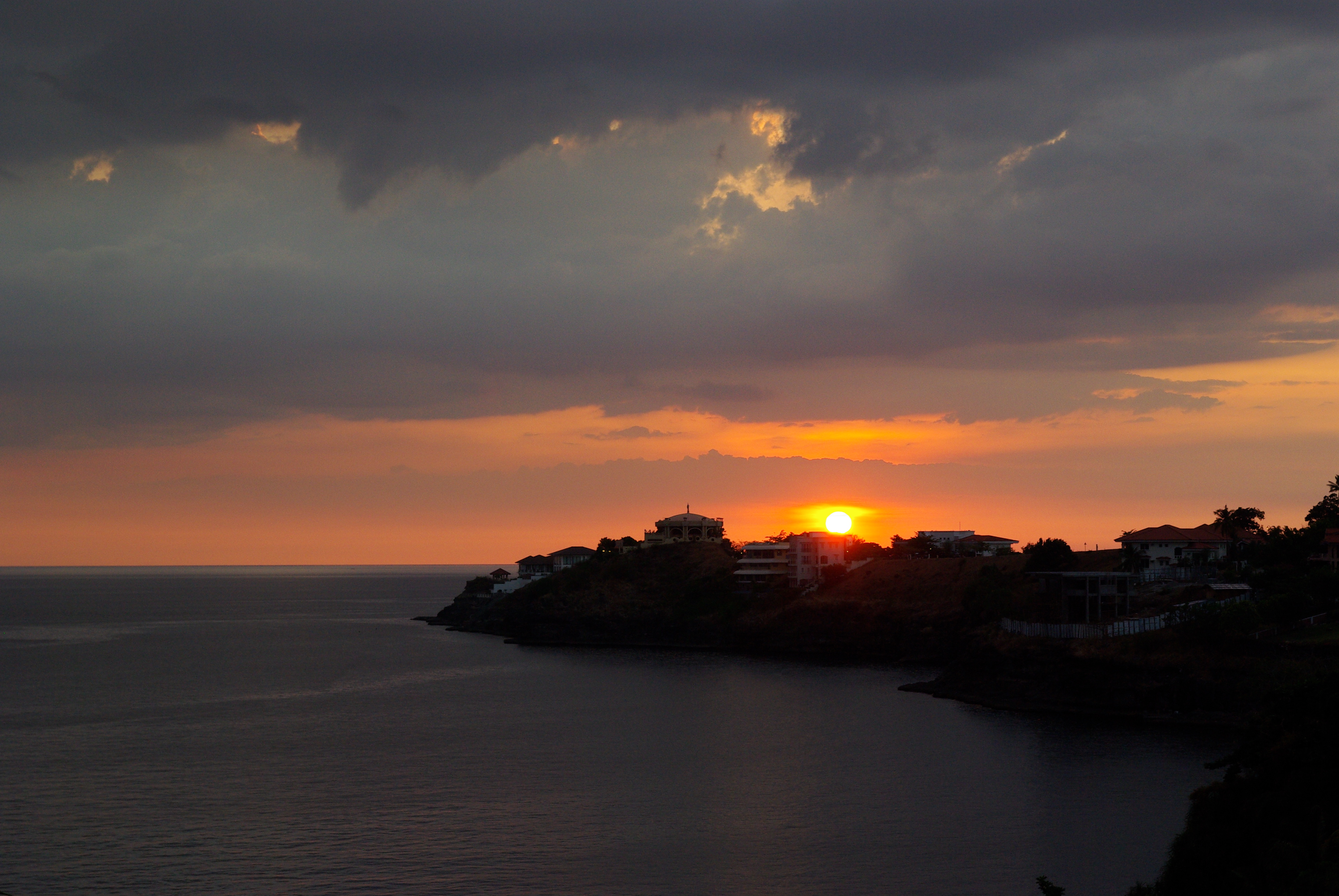 Sunset at Punta Fuego, Batangas, Philippines